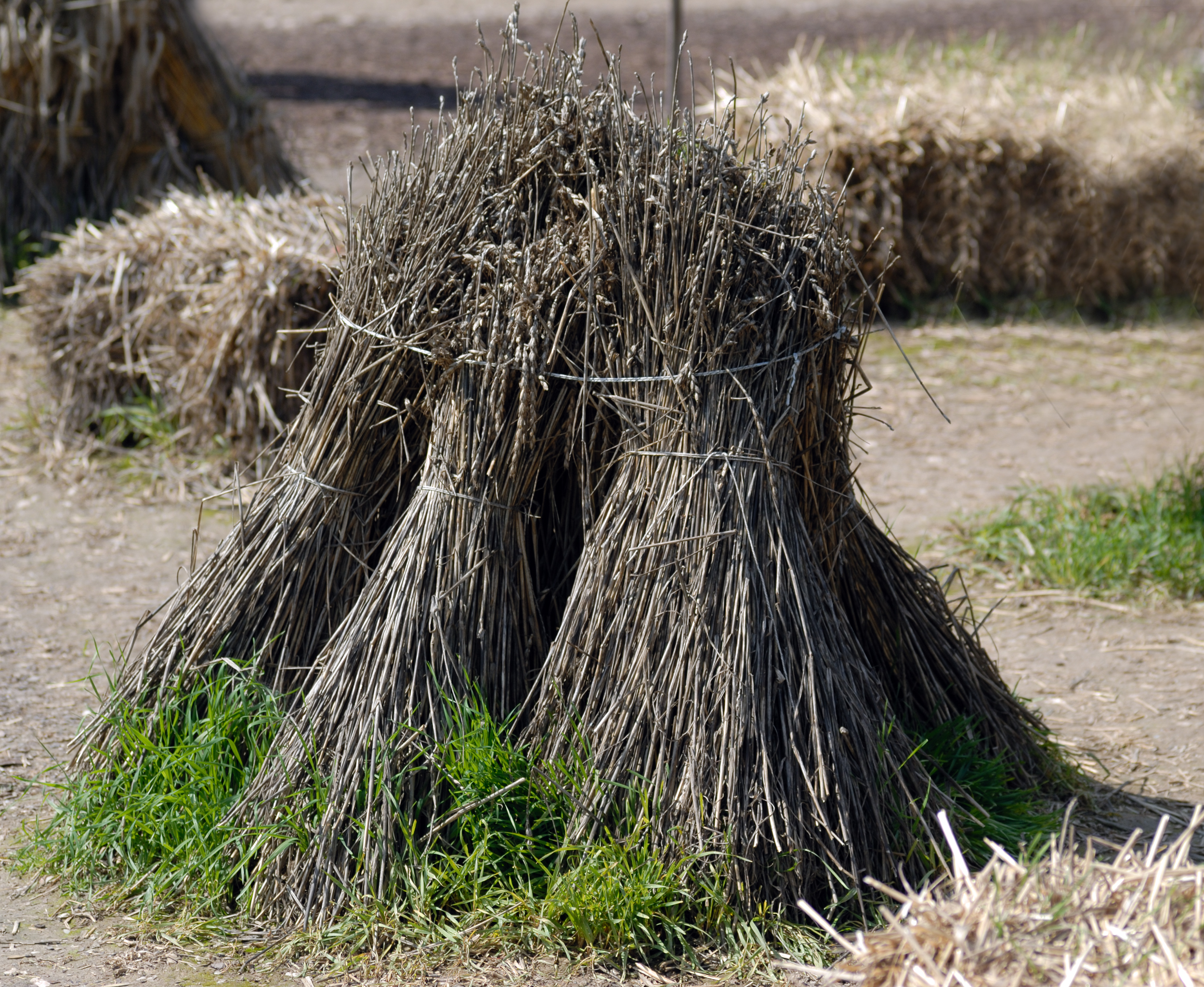 This image shows a spelt shock (Triticum spelta).